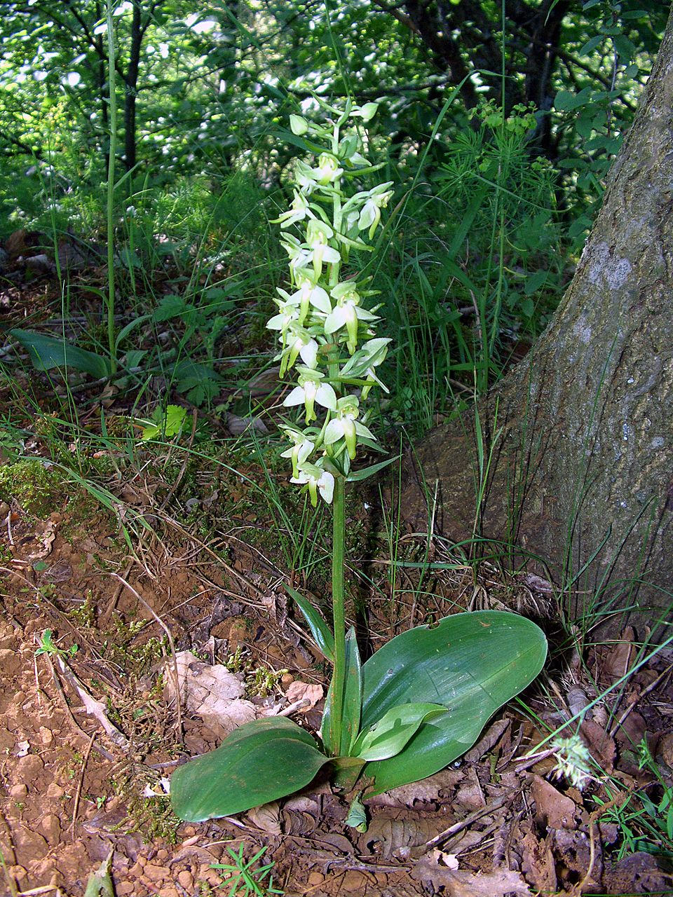 Platanthera chlorantha - plant